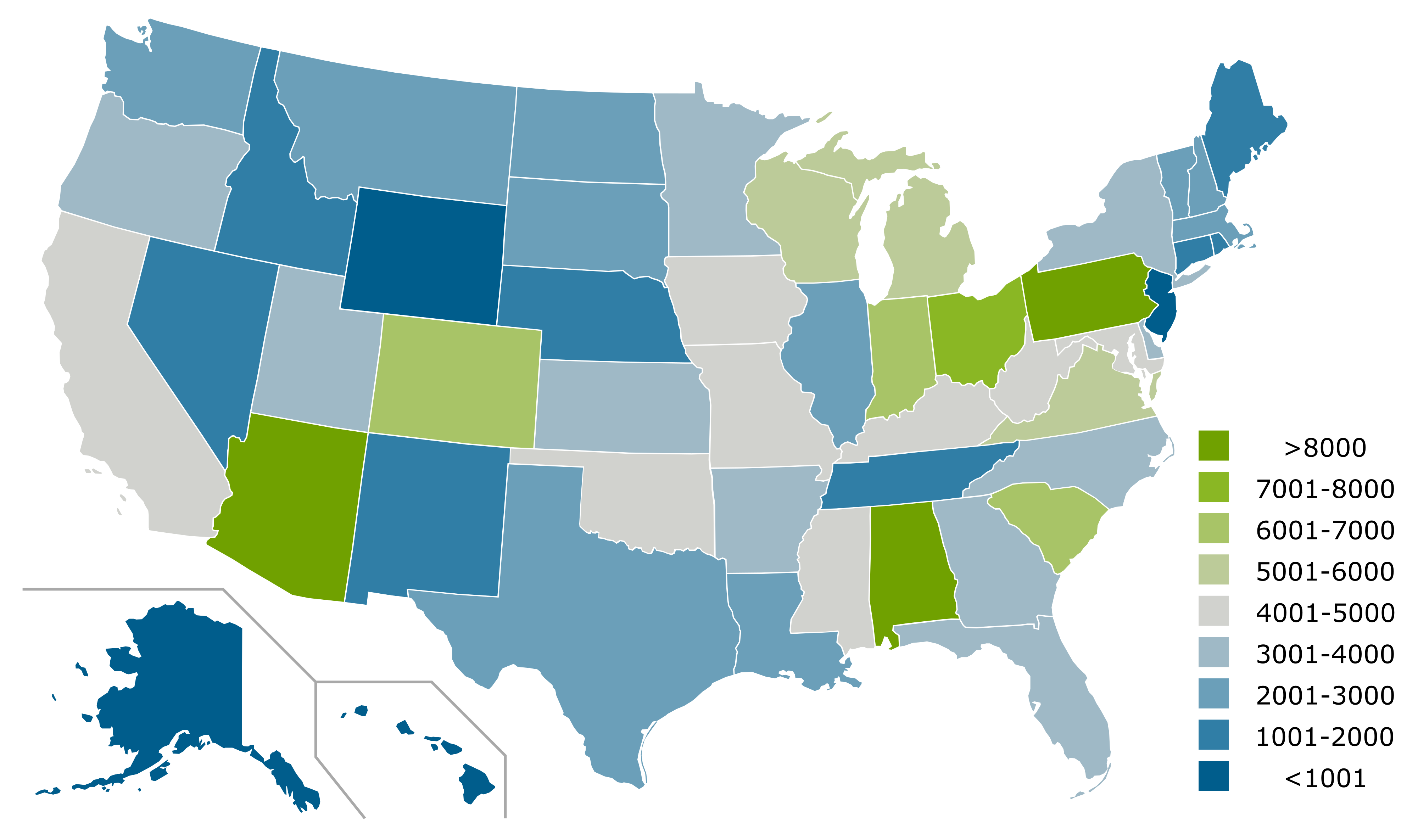 absolute numbers of out-of-state students in public colleges and universities in the United States; data